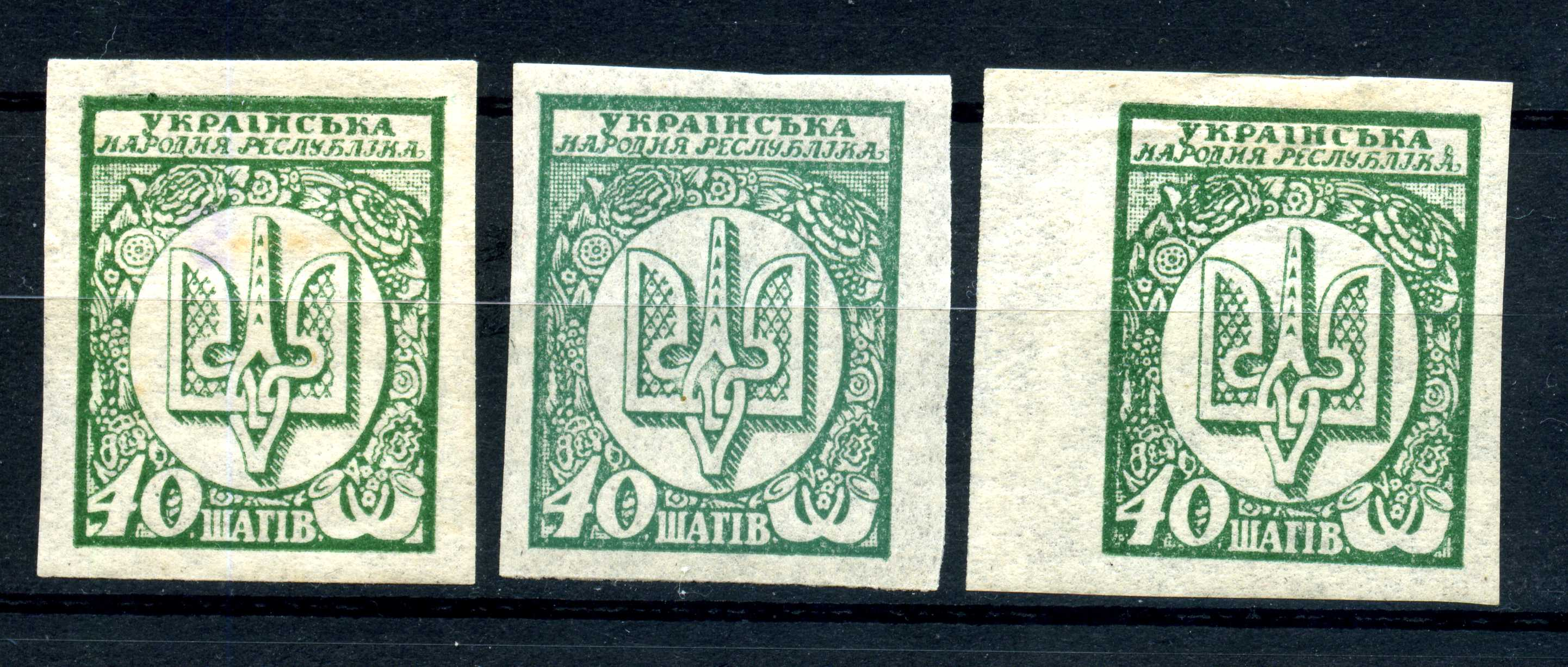 Post stamps of Ukraine